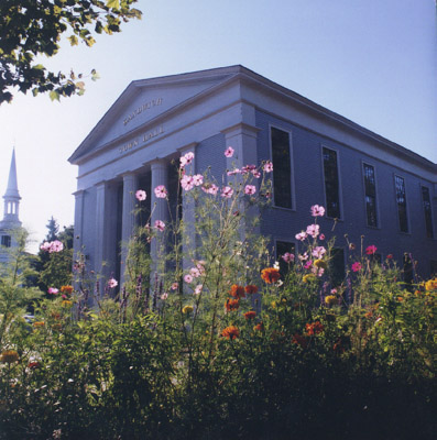 gotten from